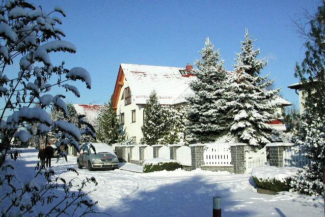 White-Christmas-1775